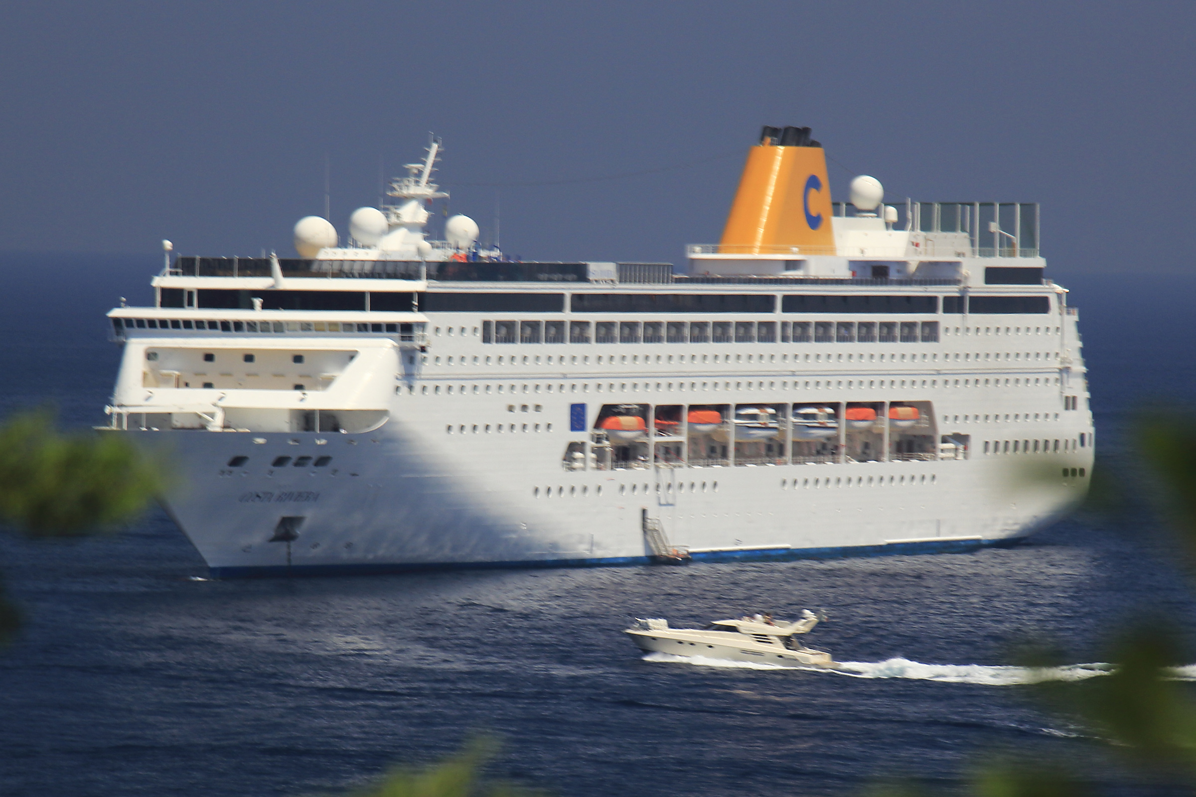 Cruise ship Costa neoRiviera anchoring close to Capri, Italy